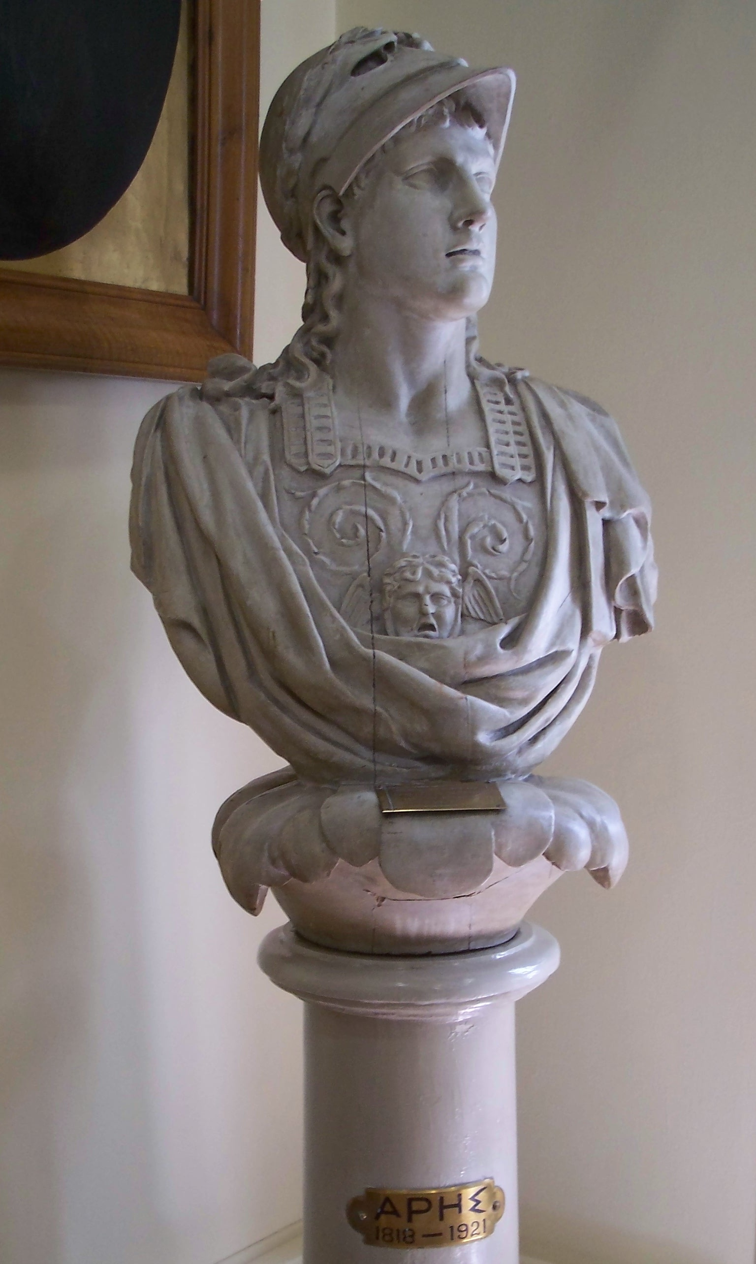 Figurehead of the ship "Aris" (Άρης) of Greek revolutionary Dimitrios Tsamados (Δημήτριος Τσαμαδός) National Historical Museum, Athens, Greece.